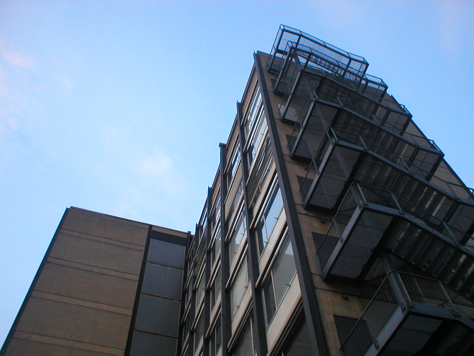 Building on Bockenheim Campus of Frankfurt University, designed by Ferdinand Kramer